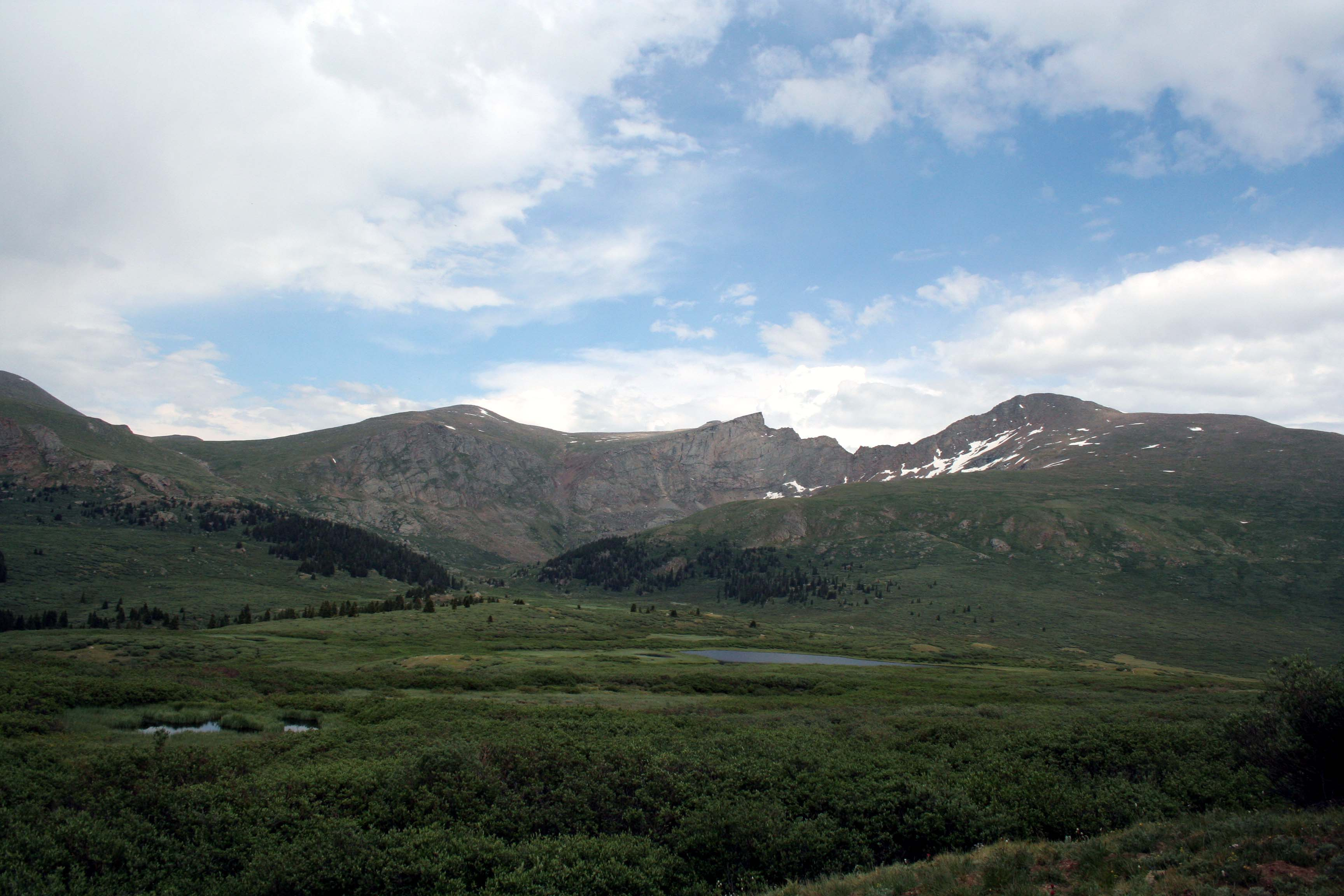 Pictures taken at Mount Bierstadt